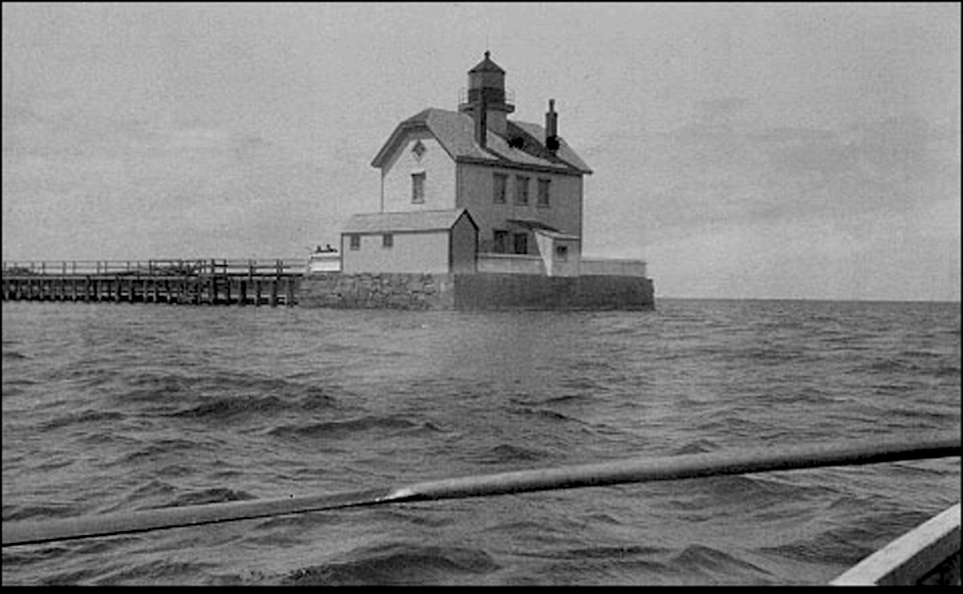 Photo of the original Edgartown Harbor Light c1830 - a wooden, Cape Cod Style, two-story Keeper's house. In 1830 Congress approved funds for a new lantern room and wooden bridge connecting the lighthouse with nearby waterfront land. From 1828 to 1830, the lighthouse Keeper; his family; guests; and visiting public had to row a short distance to access the lighthouse. This wooden causeway was eventually referred to colloquially as the "Bridge of Sighs." A term that reflected the emotions of island people as they stood on the walkway watching whaling ships depart for voyages that lasted up to five years. As depicted in the photograph, this initial Edgartown lighthouse featured a glass lantern room protruding from the middle of the gabled roof of the Keeper's residence. This lantern room contained a fixed white light that was visible for about 14 miles. The lighthouse in the photograph was destroyed in the Hurricane of 1938. In 1939, the United States Coast Guard demolished the building and installed an 1881 vintage cast-iron tower relocated from Ipswich Rear Range Light.[7] When reconstructed at the mouth of Edgartown Harbor, the relocated conical tower was fitted with the fourth-order Fresnel lens, electrified, and automated.